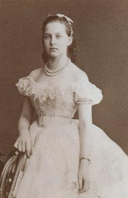 Grand Duchesses Olga Quin of Greece (1851-1926)